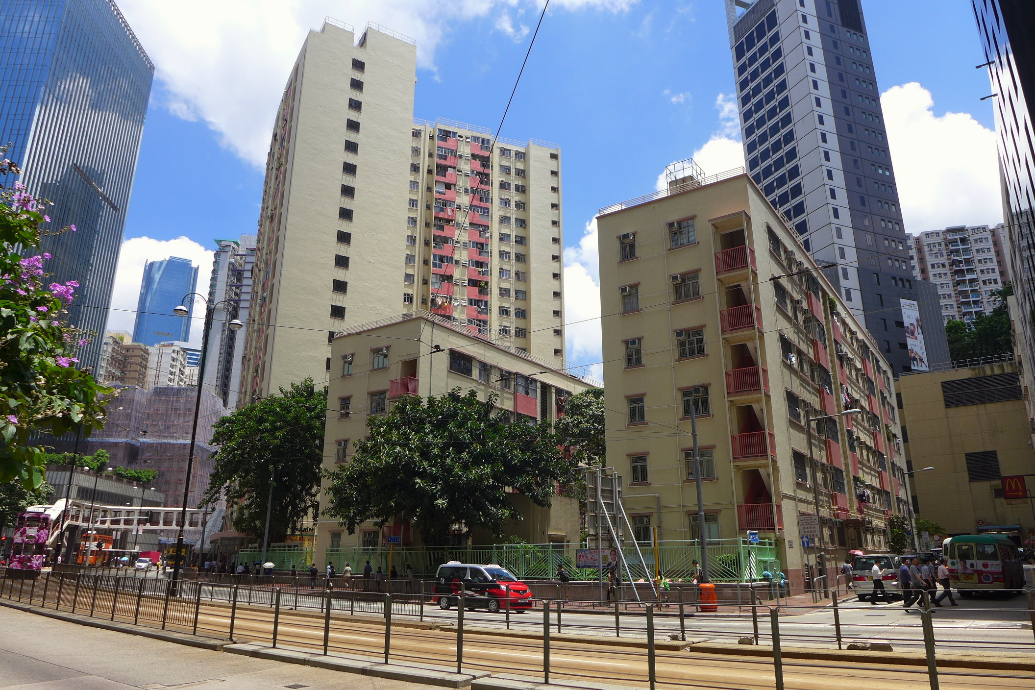 Model Housing Estate